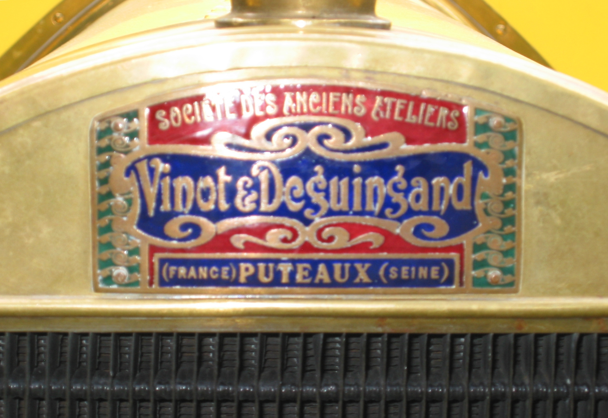 Emblem Vinot & Deguingand 1912